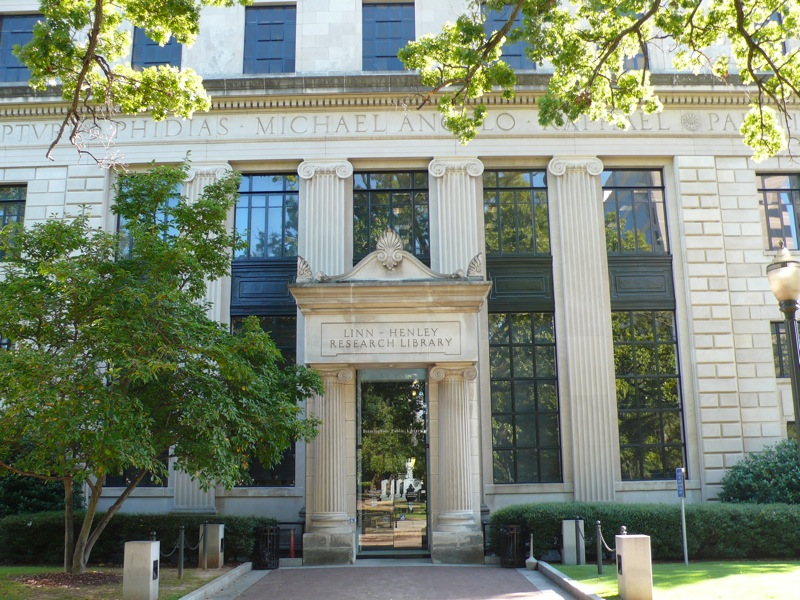 The Front of the Linn-Henley Research Library in Birmingham, Alabama